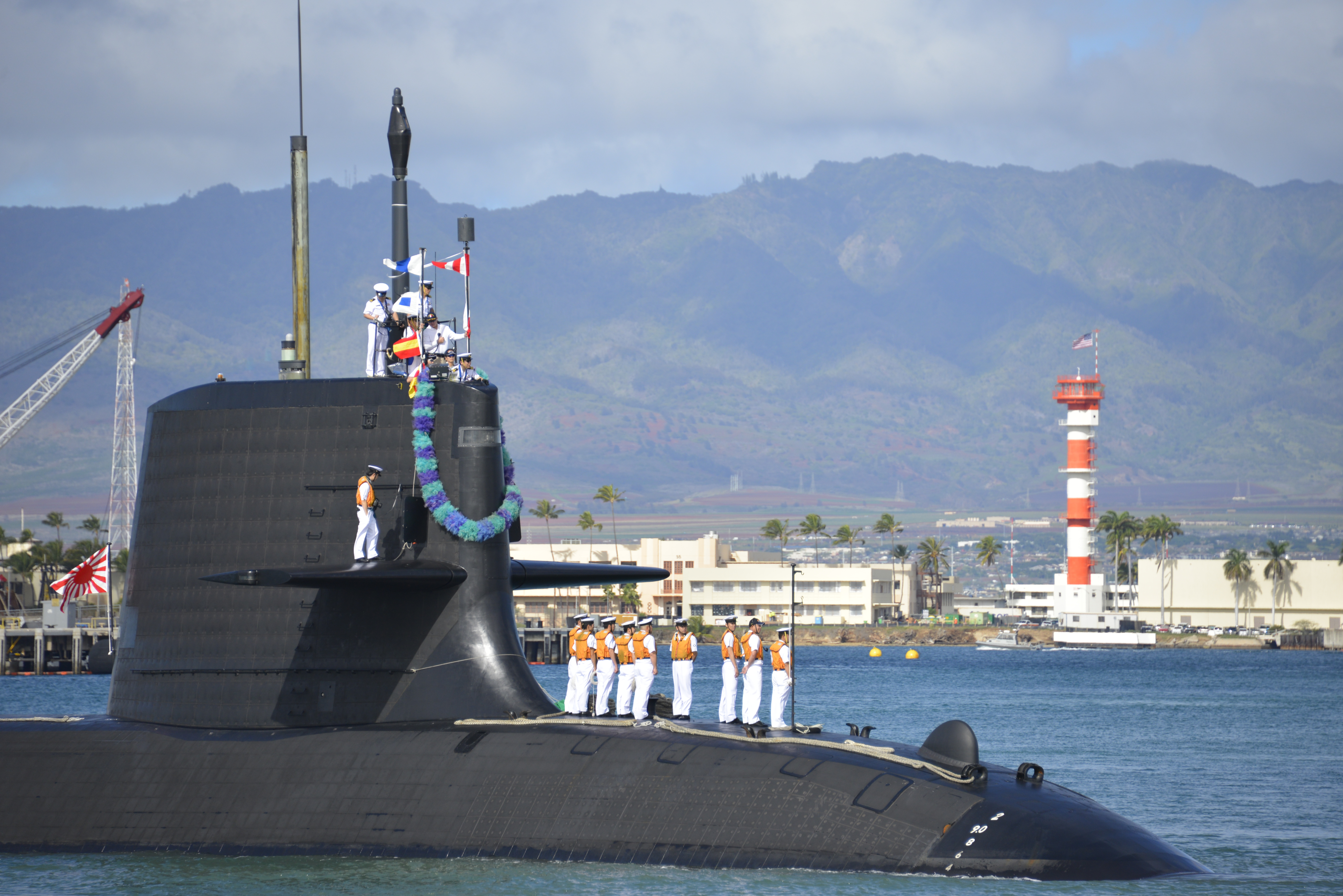 Japan Maritime Self Defense Force (JMSDF) submarine Hakuryu (SS-503) arrives at Joint Base Pearl Harbor-Hickam for a scheduled port visit, Feb. 6. While in port, the submarine crew will conduct various training evolutions and have the opportunity to enjoy the sights and culture of Hawaii. (U.S. Navy photo by Cmdr. Christy Hagen/Released) Nikon D600 + AF-S Nikkor 28-300mm f/3.5-5.6G ED VR ↑ 平成24年度第2回米国派遣訓練（潜水艦）について - 海上幕僚監部、2013年1月11日